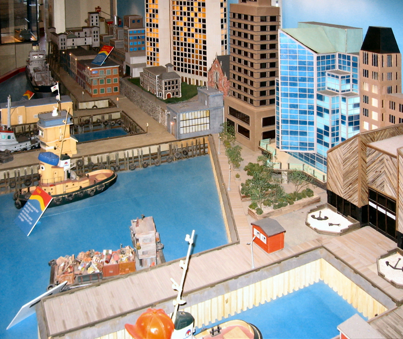 Photo of the Theodore Tugboat studio set as preserved at the Maritime Museum of the Atlantic, Halifax, Nova Scotia. Photographed by the uploader.